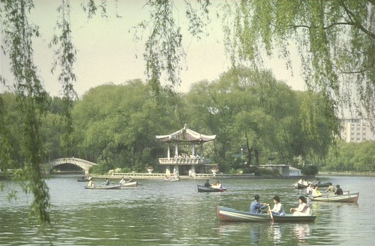 City park, with Pagoda and boats - Pyongyang.